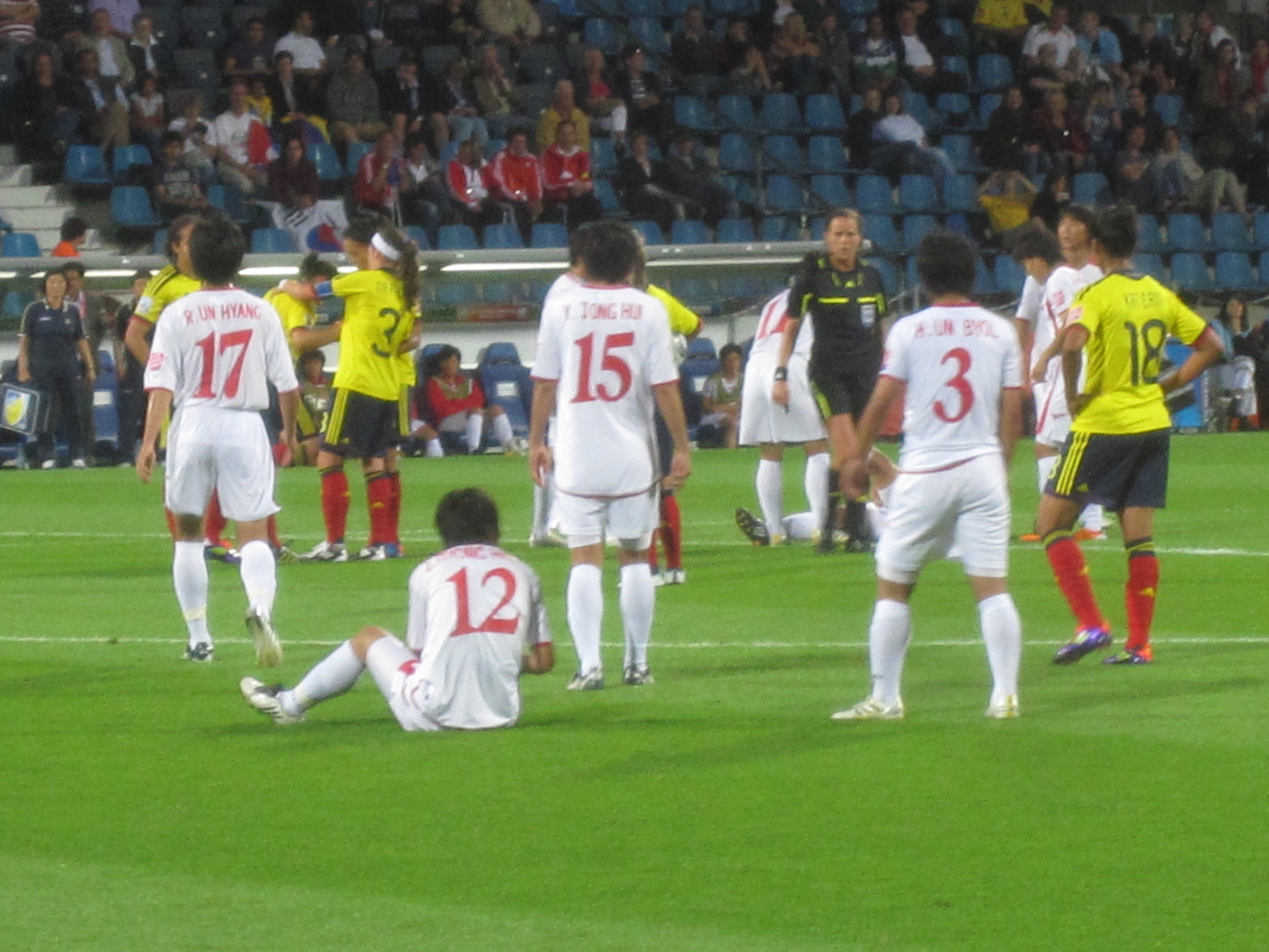 North Korea - Colombia 0:0, 2011 FIFA Women's World Cup